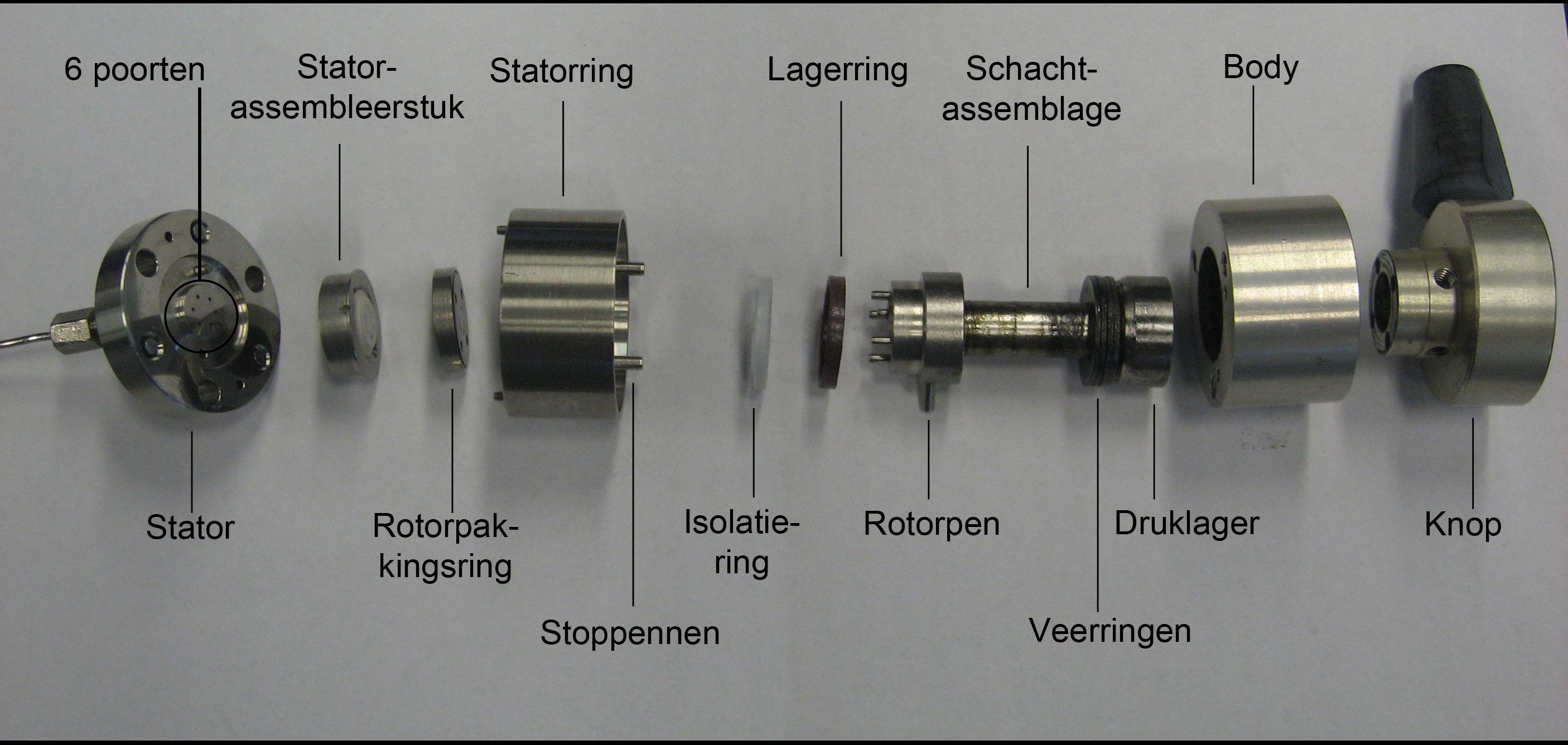 Exploded view of the Rheodyne 7125 HPLC injector